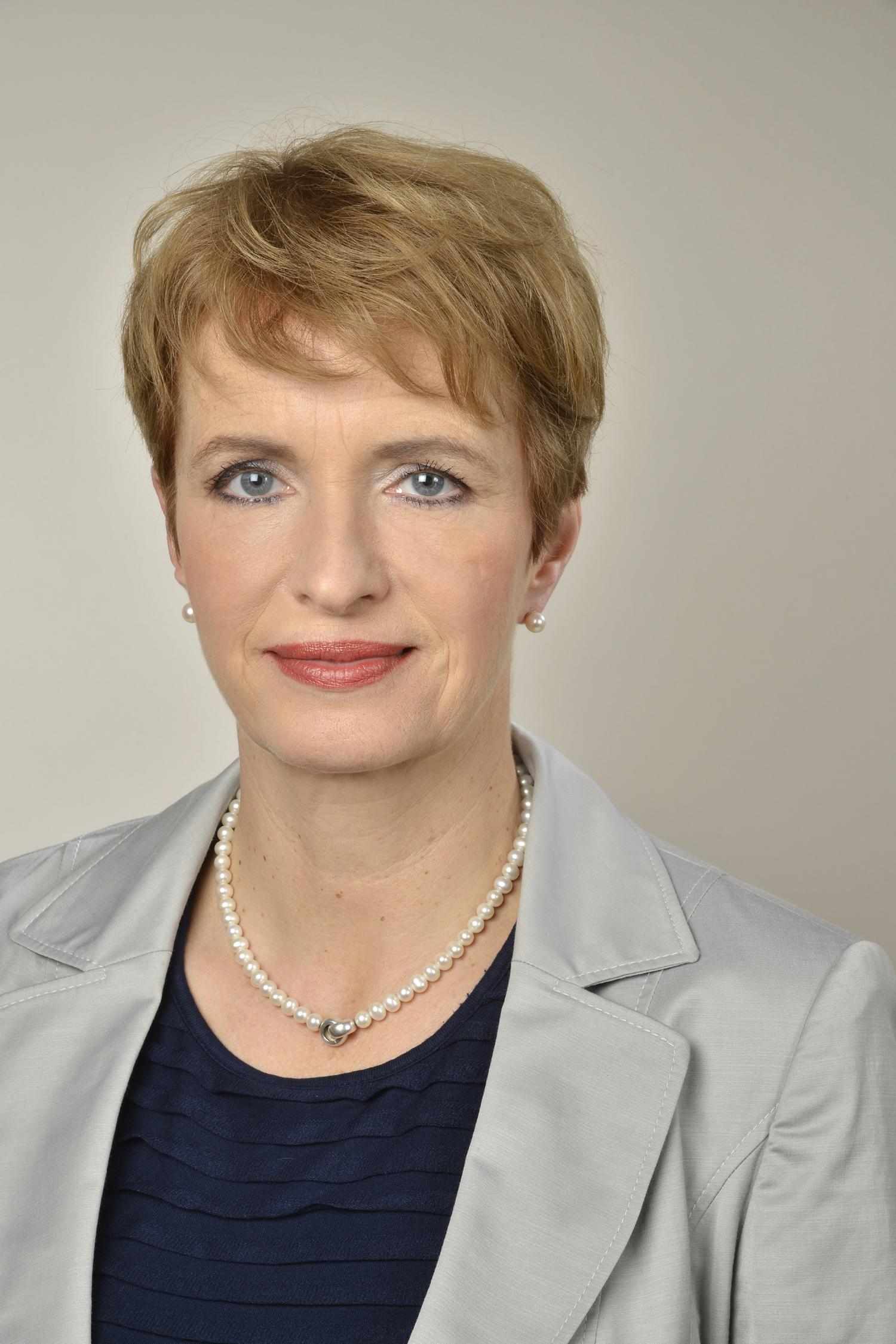 Martina Münch.